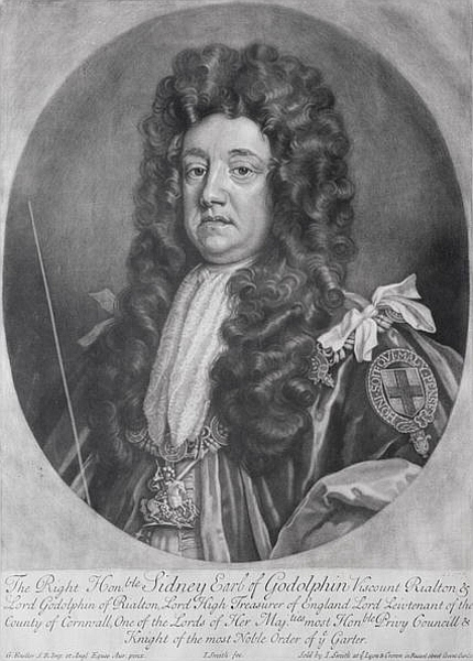 Sidney Godolphin - 1st Earl of Godolphin (1645–1712) The Right Hon.ble Sidney Earl of Godolphin Viscount Rialton & Lord Godolphin of Rialton, Lord High Treasurer of England Lord Lieutenant of the County of Cornwall, One of the Lords of Her Maj.ties most Hon.ble Privy Council & Knight of the most Noble Order of the Garter